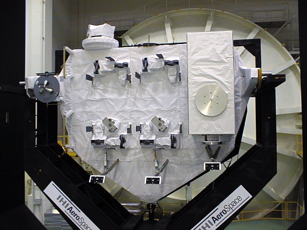 The Experiment Logistics Modules-Exposed (ELM-ES) of the Japanese Experiment Module (JEM), Japan's primary contribution to the International Space Station (ISS), is shown in a processing facility. There are two JEM logistics modules, one each for the Pressurized Module and the Exposed Facility, that serve as on-orbit storage areas that house materials for experiments, maintenance tools and supplies. The ELM-ES is a pallet that can hold 3 experiment payloads for the JEM Exposed Facility. Photo Credit: NASDA